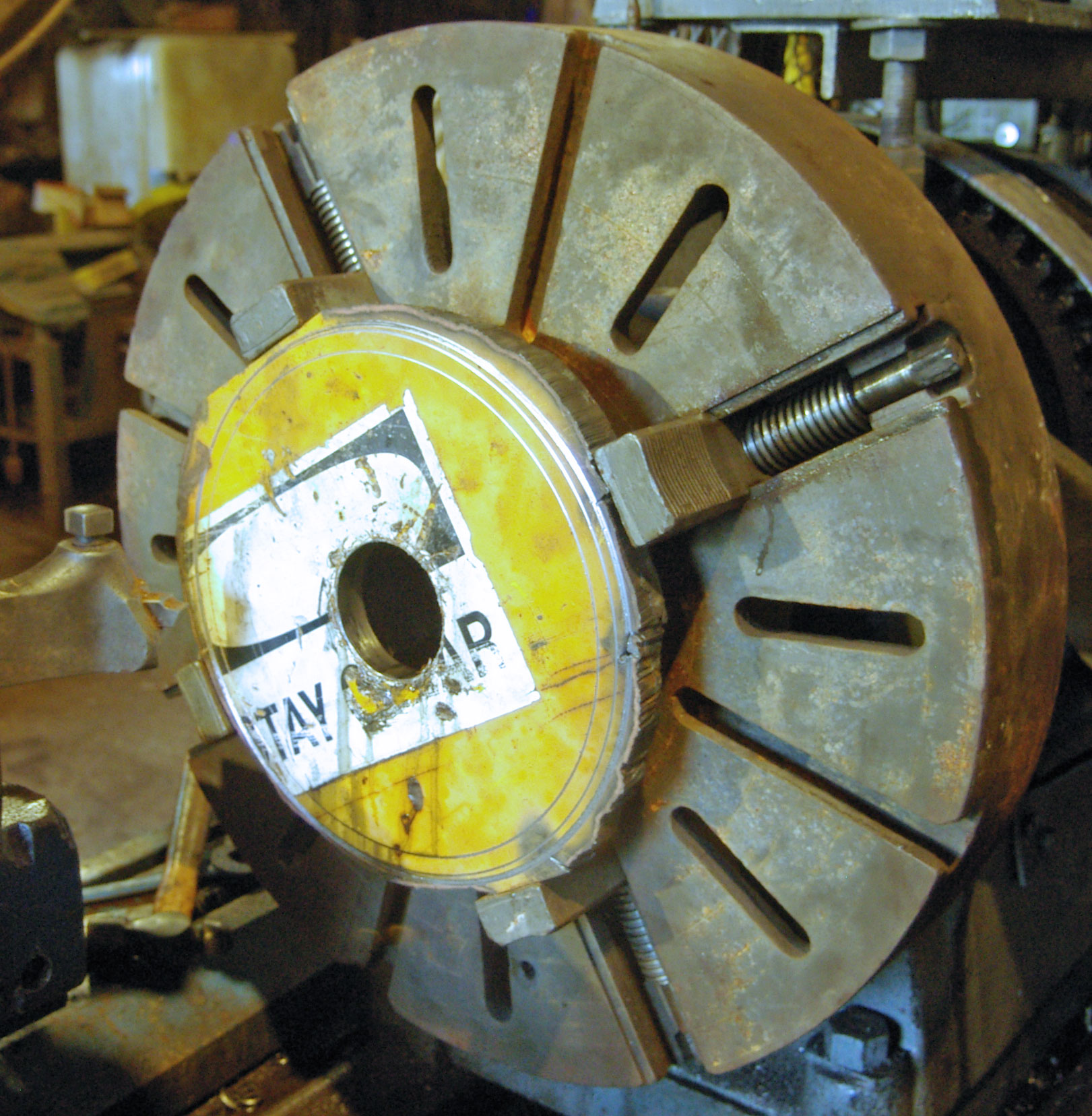 Cushman Chuck from Early 1900's